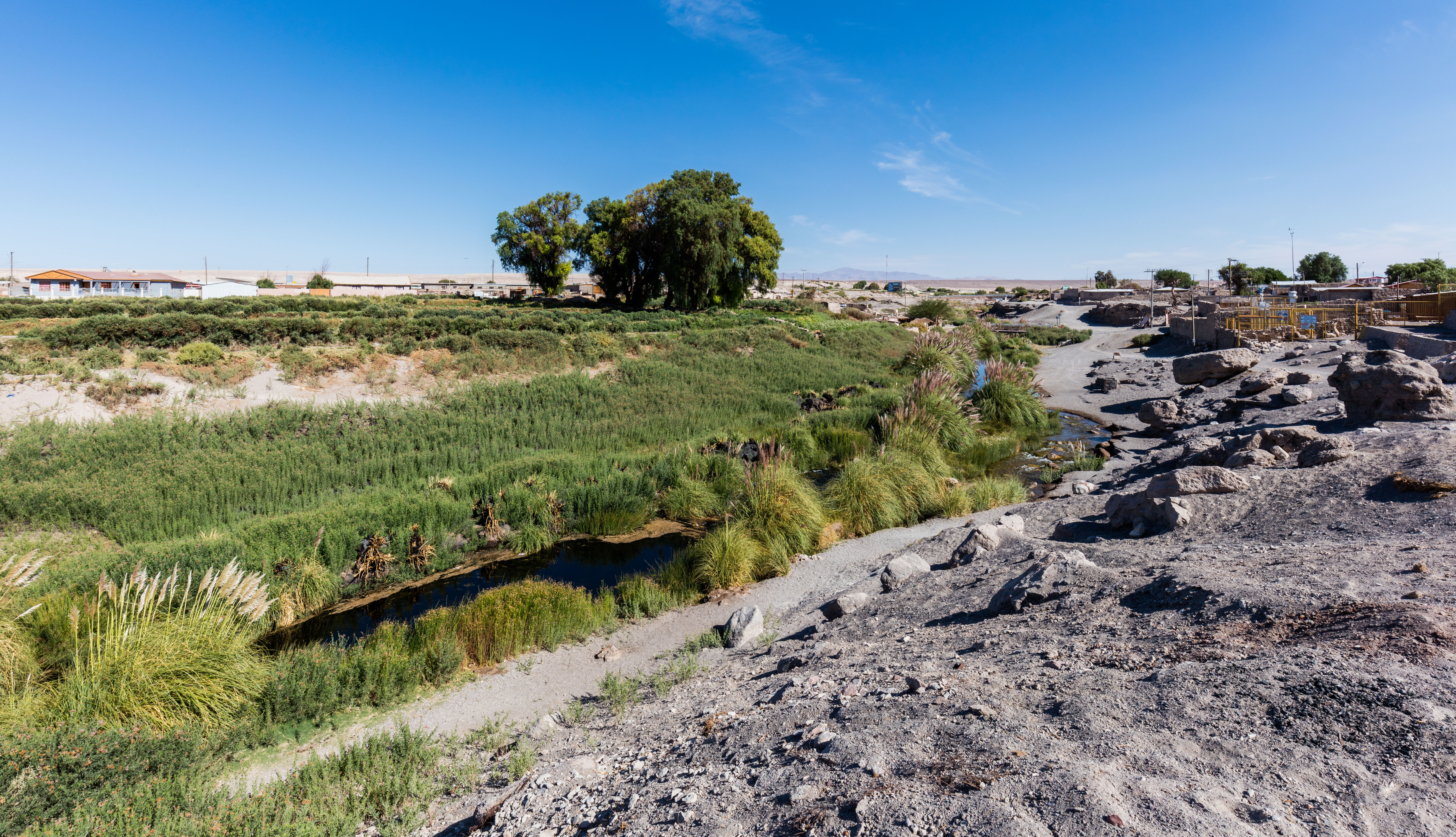 Loa River, Chiu Chiu, Chile